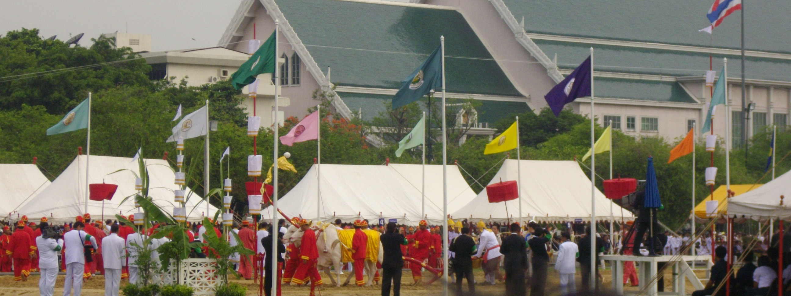 Royal Ploughing Ceremony in Thailand at Sanam Luang, Bangkok, 11 May 2009.